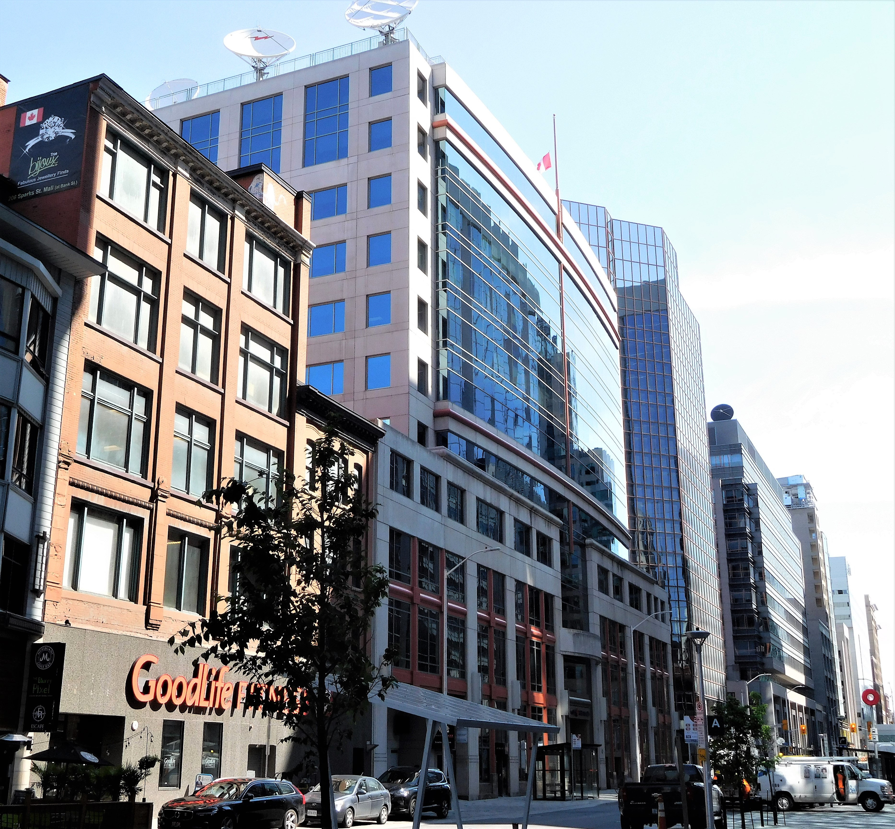 CBC Ottawa Broadcast Centre, 181 Queen Street, Ottawa